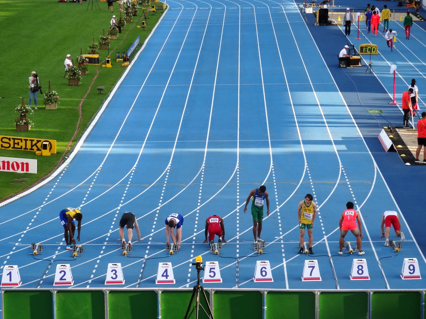 2016 IAAF World U20 Championships in Bydgoszcz, 100m men semi-final